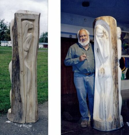 1 Abel Ramírez Águilar with sculpture named "Trípico" at Artist Encounter in Mislanice, Poland in 2004